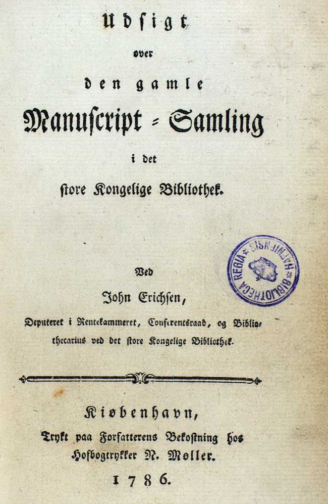 Title page of the book Udsigt over den gamle Manuscript-Samling i det store Kongelige Bibliothek ("List of Manuscripts in the Royal Library"). Published in Copenhagen.